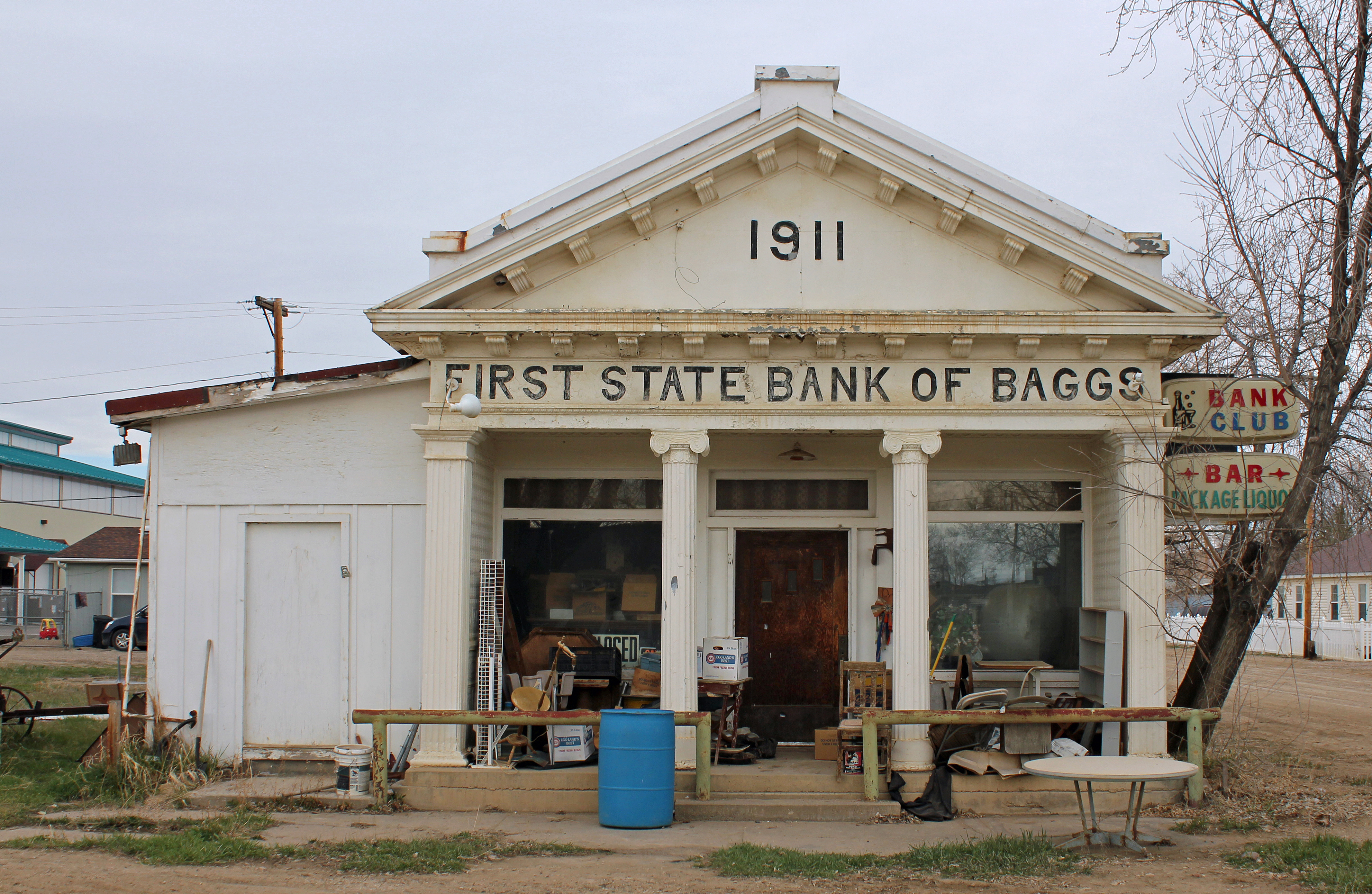 The First State Bank of Baggs, located at 10 South Miles Street in Baggs, Wyoming. The property is listed on the National Register of Historic Places.